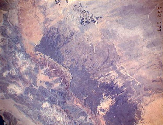 The darker-colored area extending diagonally to the right down the center of this Space Shuttle image is Harrat ar Rahah, the northernmost of a series of Quaternary volcanic fields paralleling the Red Sea coast of Saudi Arabia. The geometrical outlines of the historical town of Tabuk (top-center), located on the road leading from Hijr to Damascus, can be seen to the north. There are fewer young volcanoes in Harrat ar Rahah than in other harrats (lava fields) to the south.